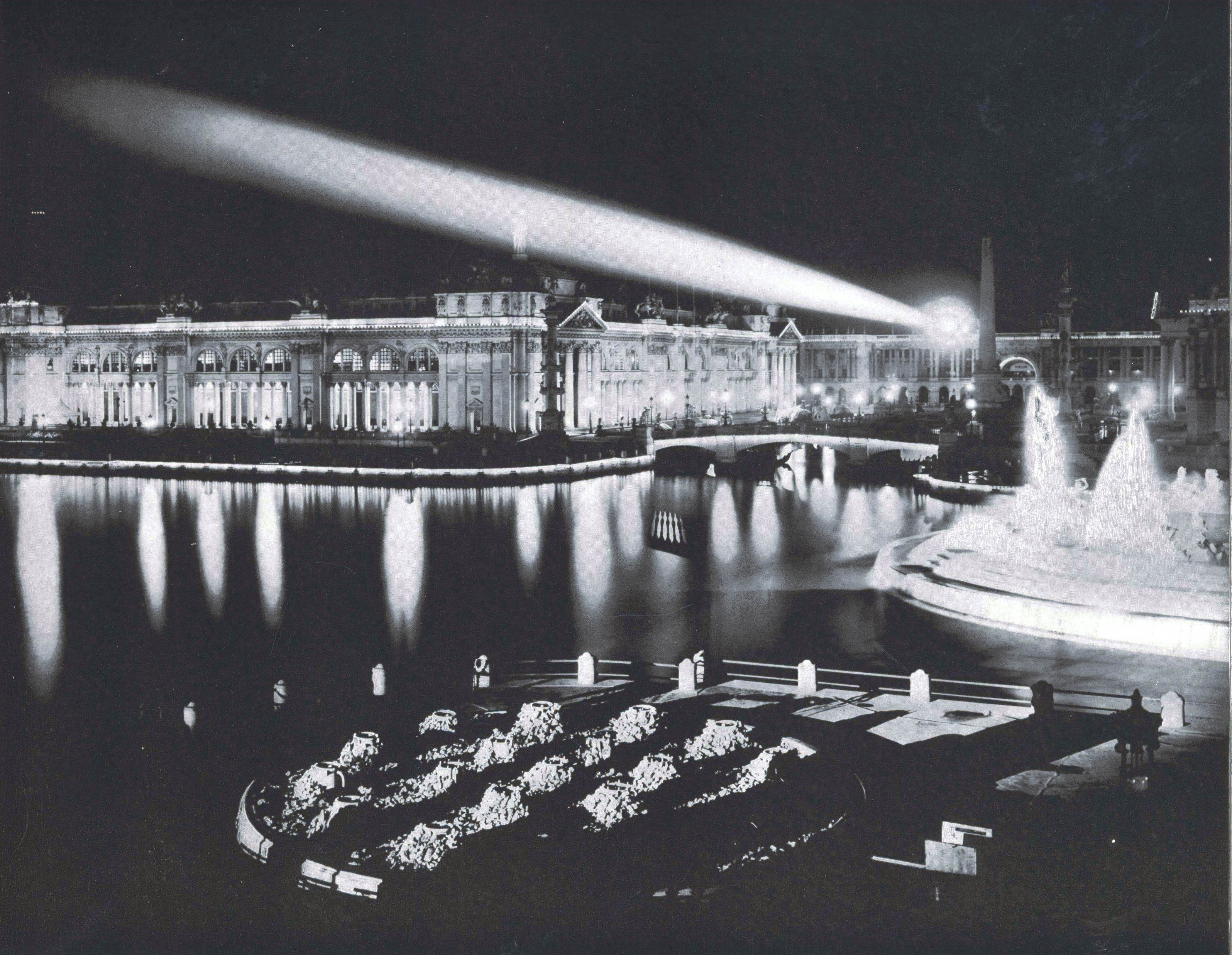 Halftone photomechanical print from White City (as it was) and/or Jackson's Famous Pictures of the World's Fair, two books of plates of official images taken by William Henry Jackson for the 1893 World's Columbian Exposition.